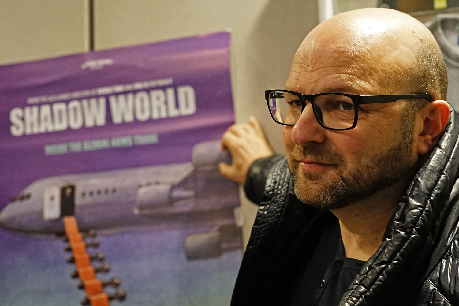 Andrew Feinstein - South African economist, arms industry espert, writer and former politician at the presentation of the documentary "Shadow World: Inside the Global Arms Trade" in Copenhagen, Denmark - November 2016